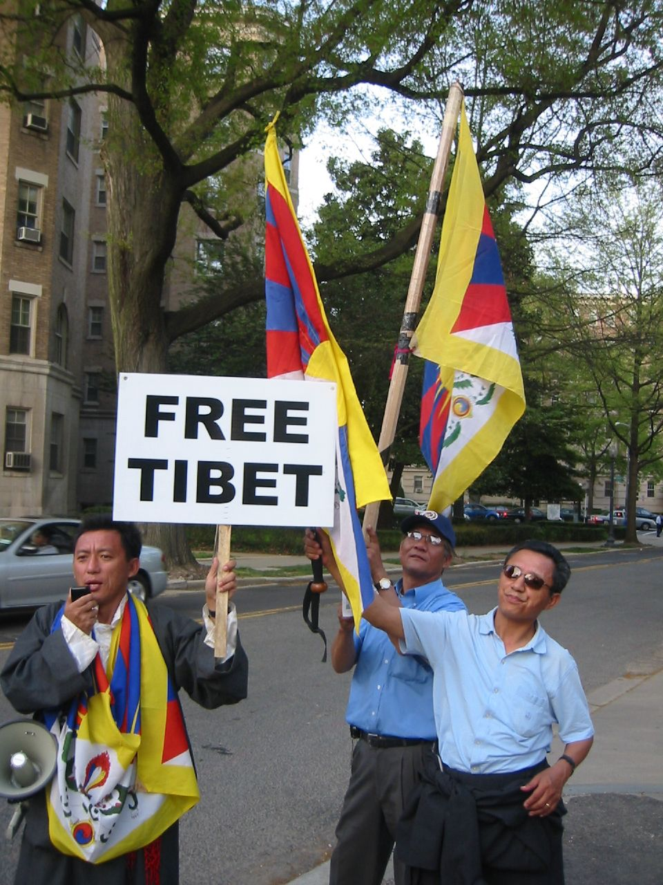 Tibetans wait for President Hu of China. Tibet is among the more prominent issues of self-determination in the world. Usable with attribution and link to